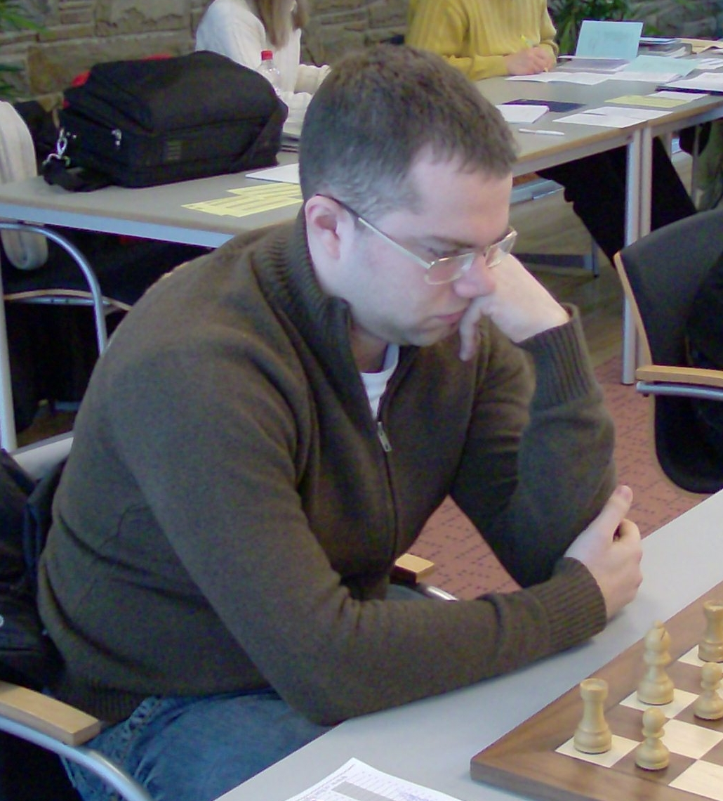 Pavel Eljanov, Ukrainian chess grandmaster